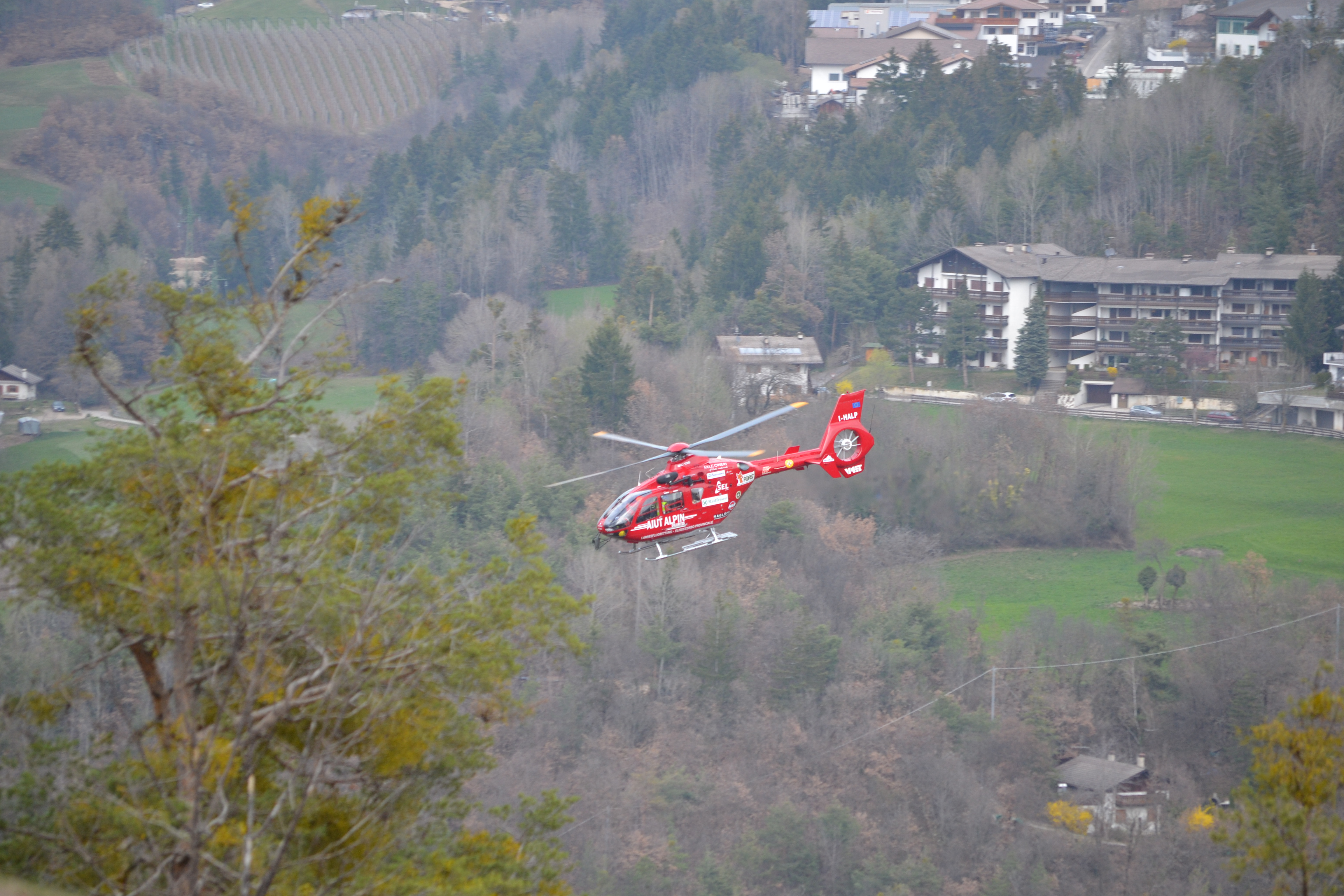 Solidarity with mountaineers in trouble holds together 16 mountain rescue teams, mainly from the Ladin-speaking region of the Dolomites, in the mountain rescue service »Aiut Alpin Dolomites«. The non-profit association runs its own helicopter and is embedded in the province's main emergency hotline.